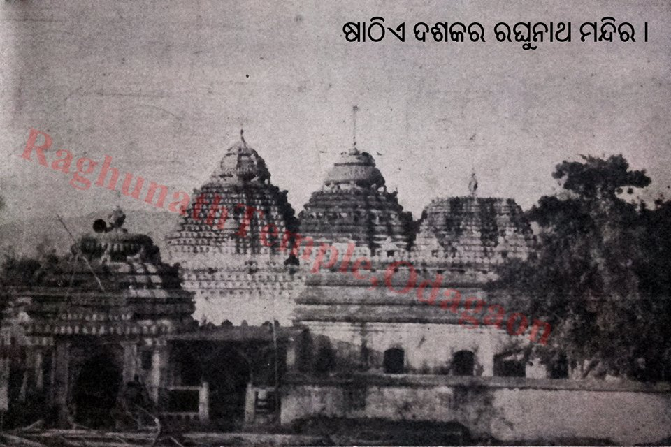 This was the photo of 19th Century...